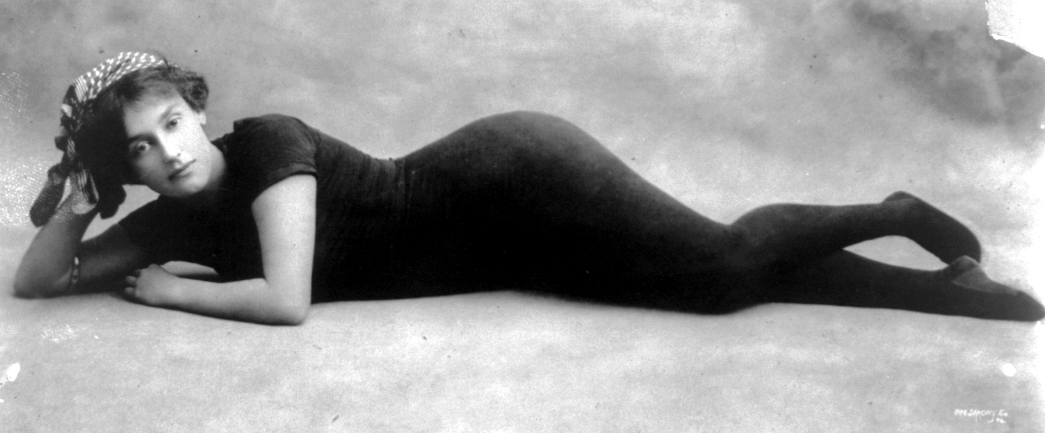 Swimming - Annette Kellerman